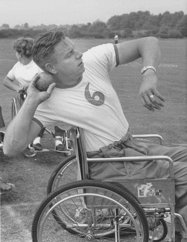 British Paralympian Dick Thompson